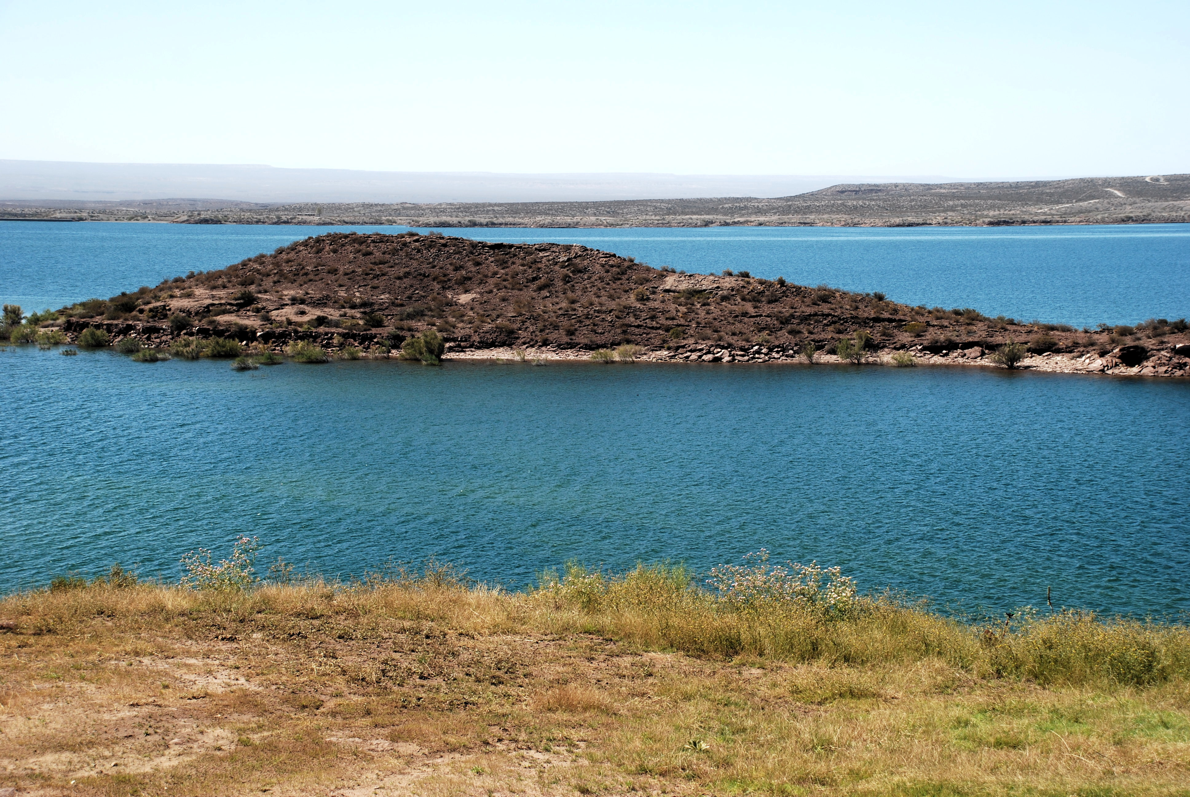 The lake El Chocón, in the northwestern Argentine Patagonia (the Comahue region)